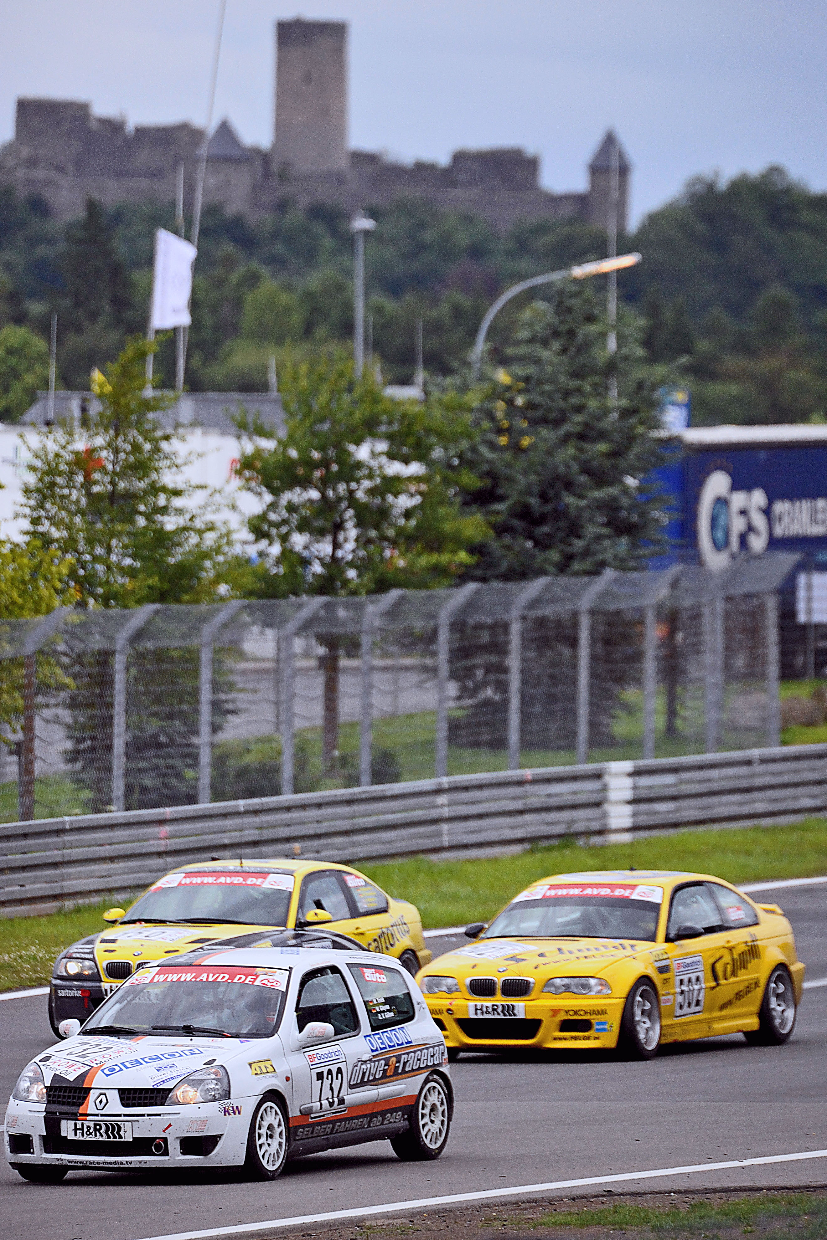 "6h ADAC Ruhr-Pokal-Rennen" tournament of the "BF Goodrich Langstreckenmeisterschaft 2009" series on Nürburgring race course